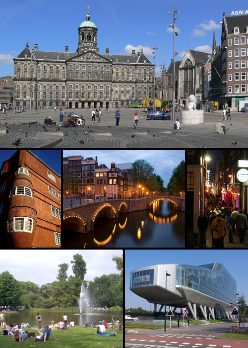 Sights in Amsterdam, Netherlands.